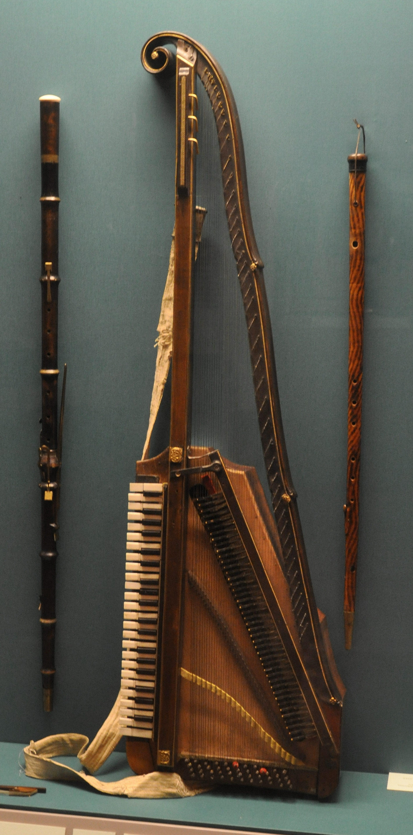 Orphica by Joseph Dohnal (and "cane instruments") Vienna, Kunsthistorisches Museum, Collection of Ancient Instruments (Neue Burg (New Castle))